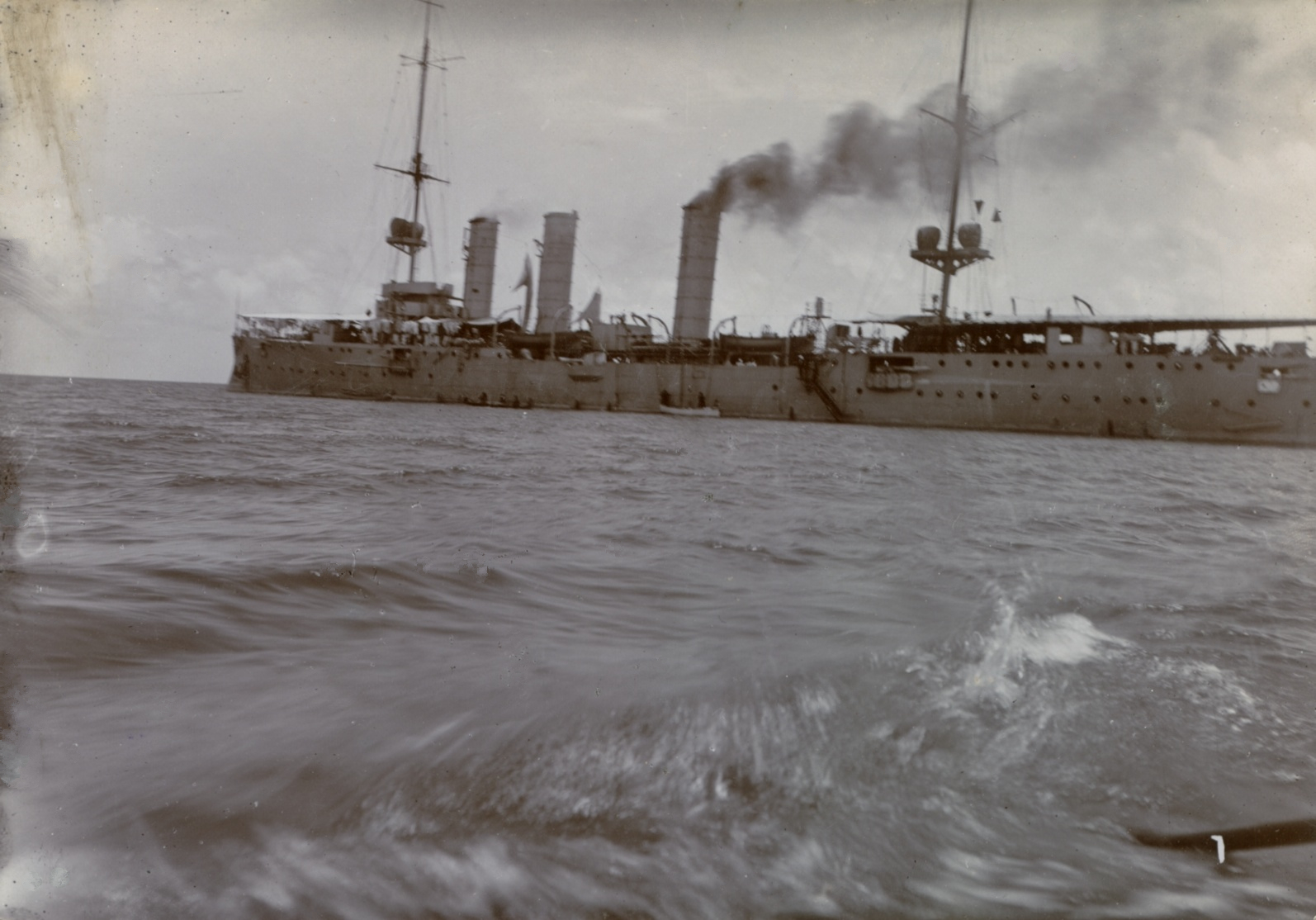 SMS Nürnberg